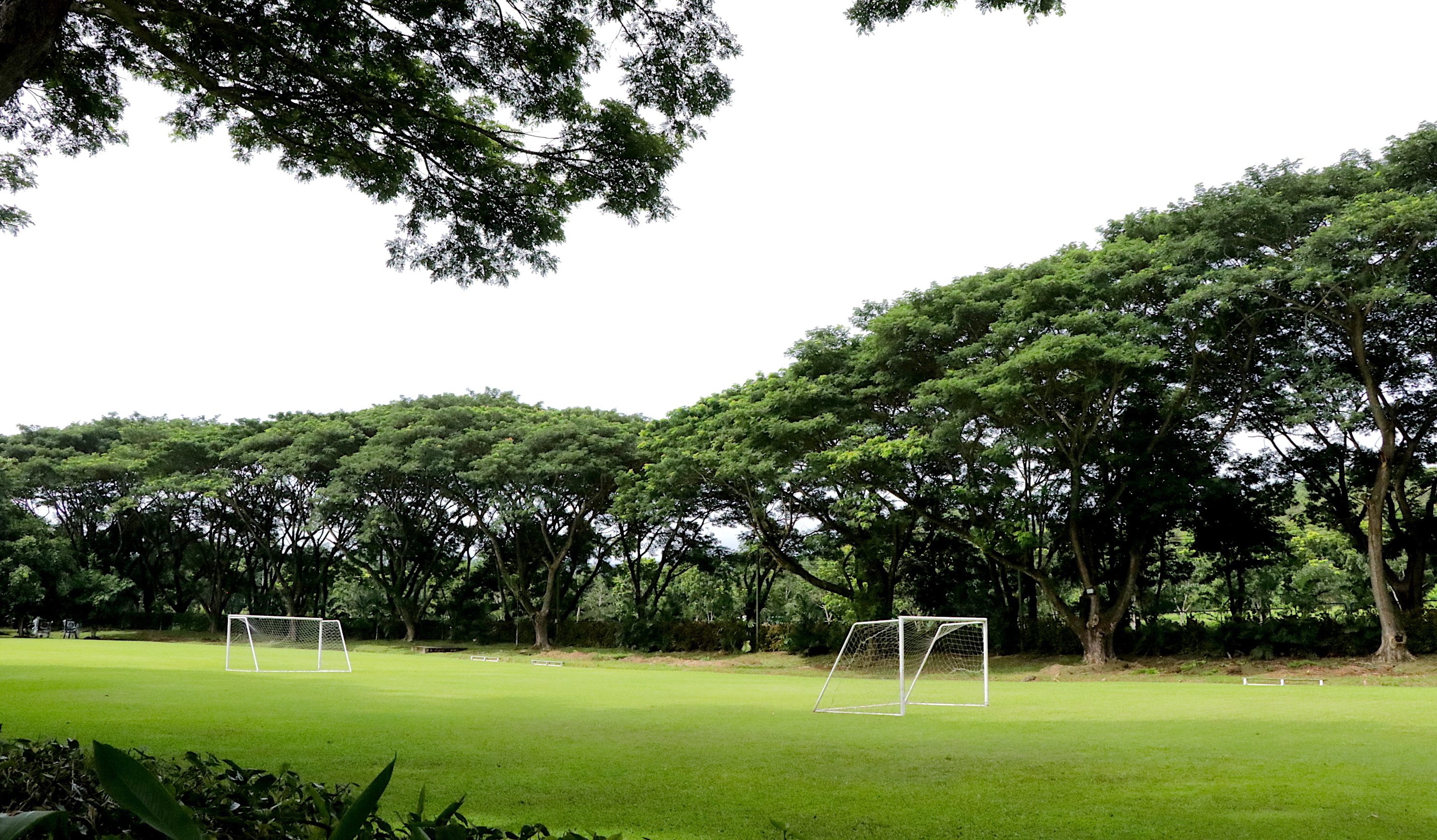 Prem Tinsulanonda International School Sport Field